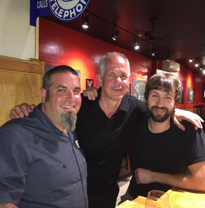 Gary Danko (center) at a restaurant in Sturbridge, Massachusetts in May 2014. Other information The photo was cropped from the original.